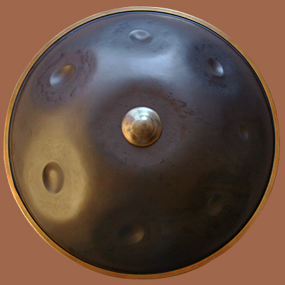 Integral Hang